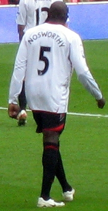 Nyron Nosworthy. Image cropped from original at flickr.